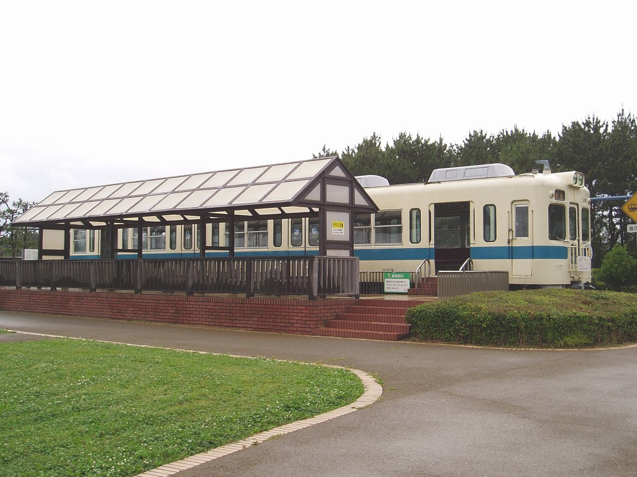 Odakyu Electric Railway,2600 series(2658).